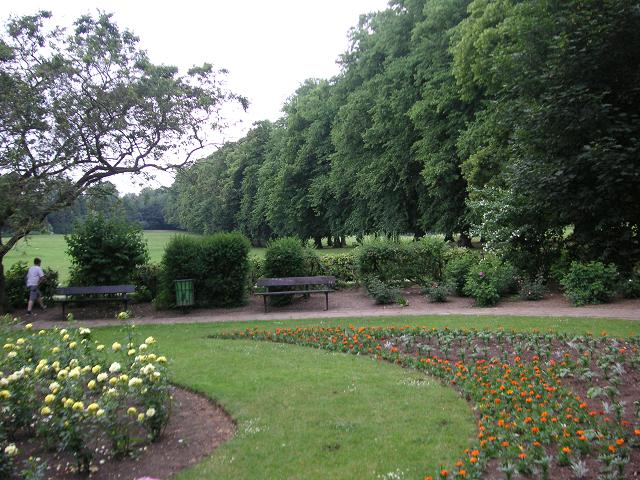 Photograph by Colin Riegels (June 2006)